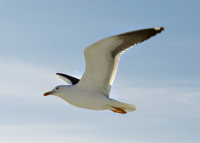 Flying Lesser Black-backed Gull Larus fuscus (picture taken from a boat in the archipelago near Stockholm)